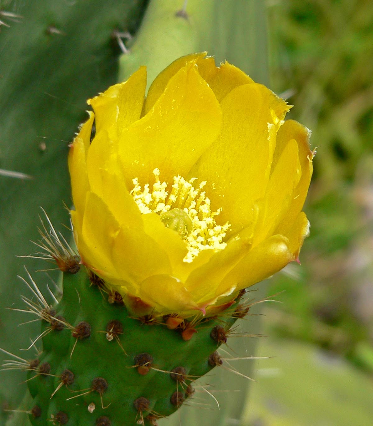 Photo of Opuntia ficus-indica at the San Francisco Botanical Garden